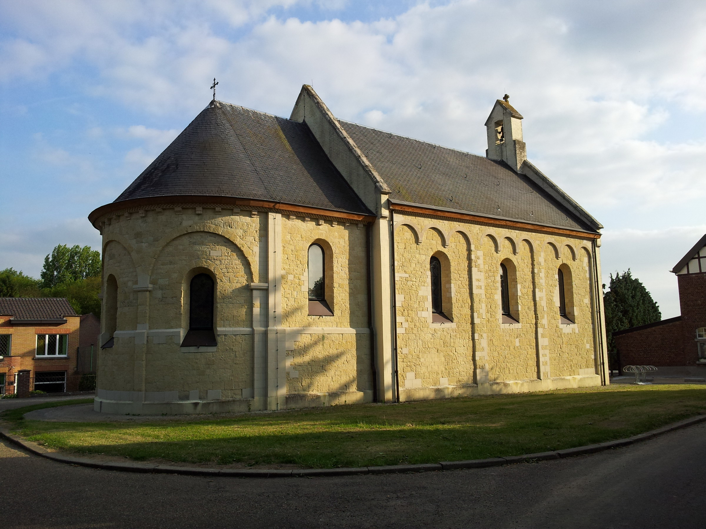 Brustem, near Sint-Truiden, Belgium. Saint Eucherius Chapel, 12th-century romanesque church, dedicated to Eucharius of Orléans, and known as a shrine to Saint Bertilia.